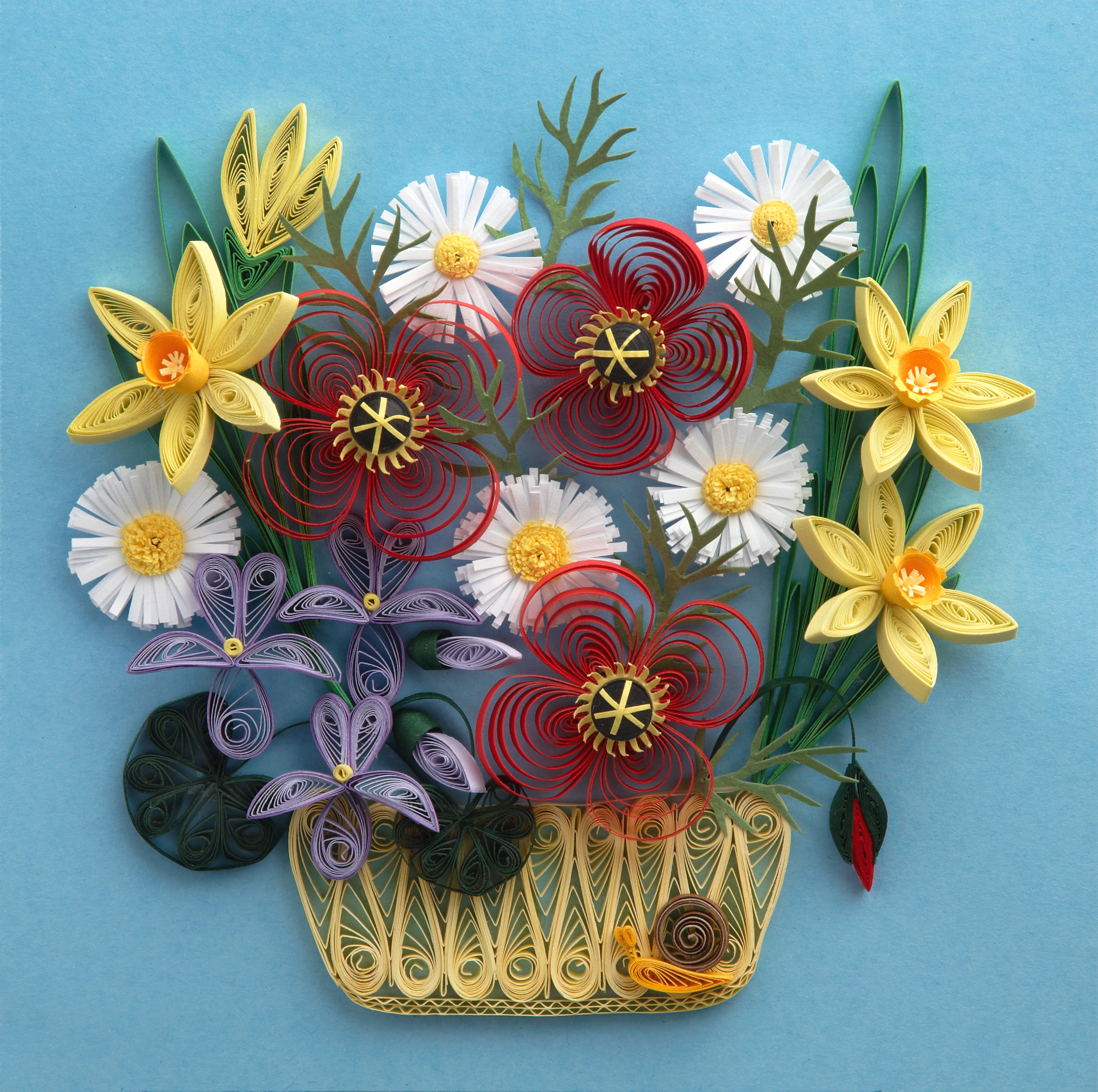 Quilled flowers. Sample quilling picture.